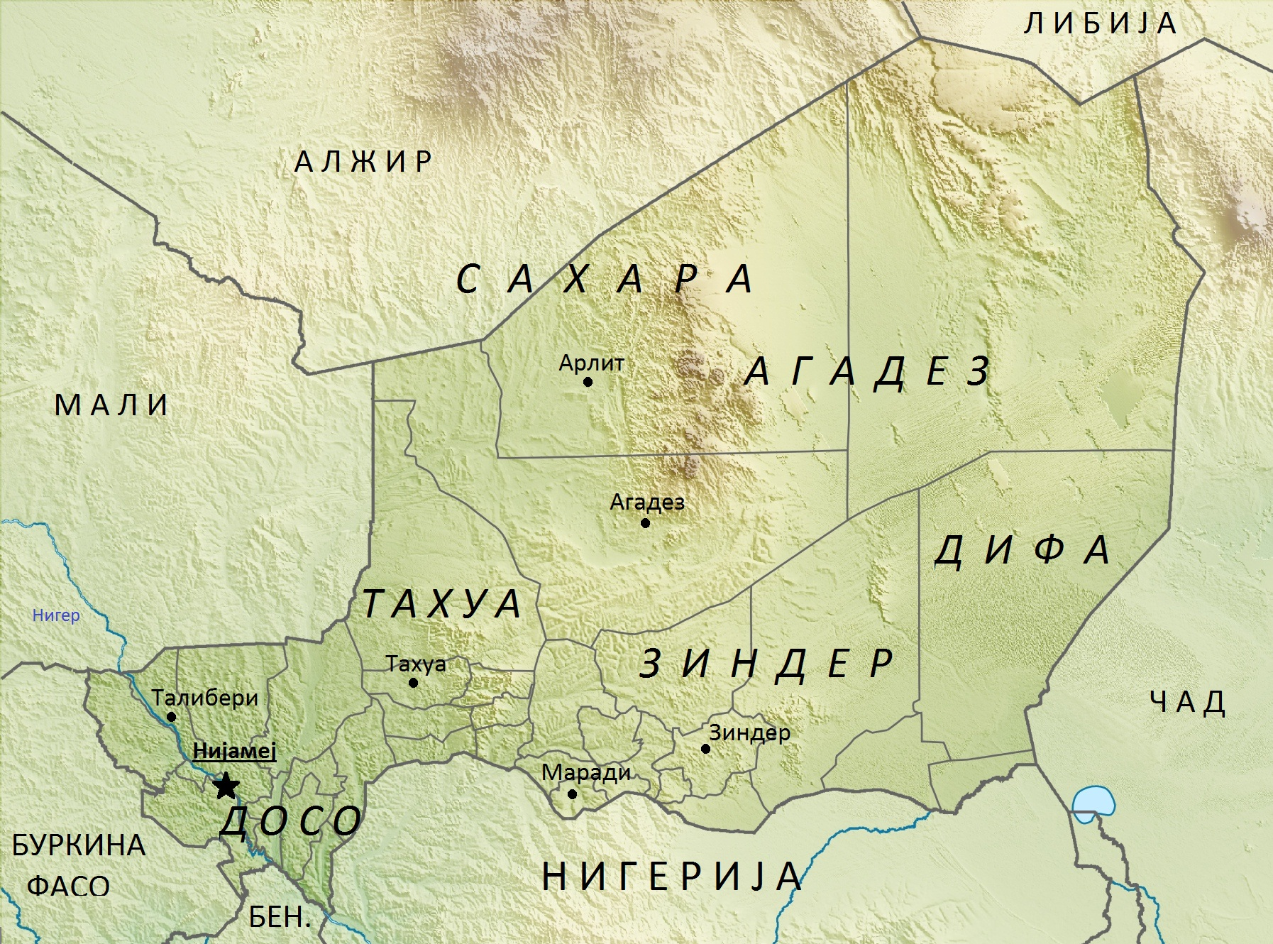 Map of Niger in Macedonian.